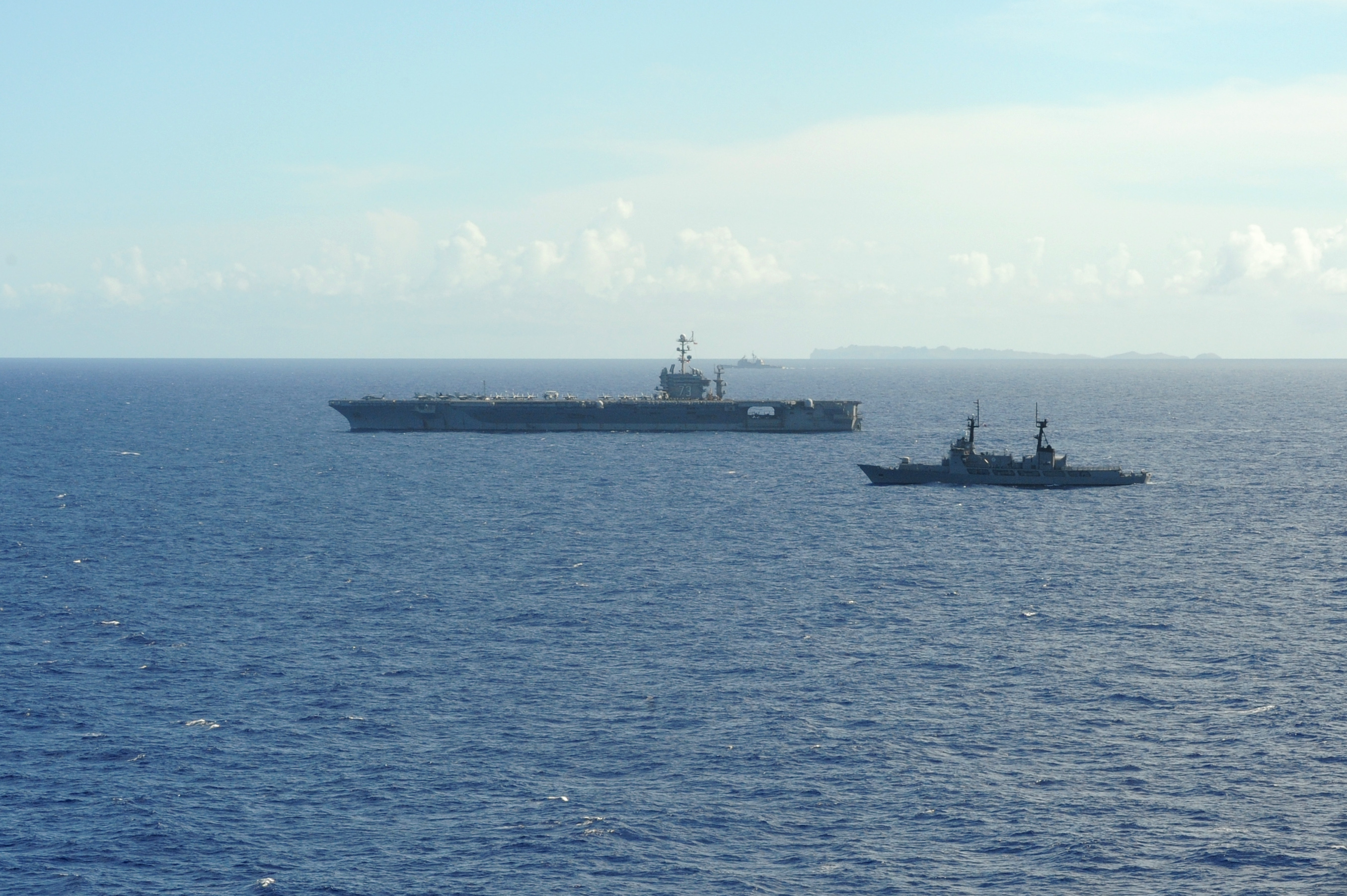 The aircraft carrier USS George Washington (CVN 73), left, moves alongside the Philippine frigate BRP Gregorio Del Pilar (PF-15) in the Philippine Sea Nov. 17, 2013, during Operation Damayan. U.S. military forces were deployed to the Philippines to support humanitarian efforts in response to Typhoon Haiyan.